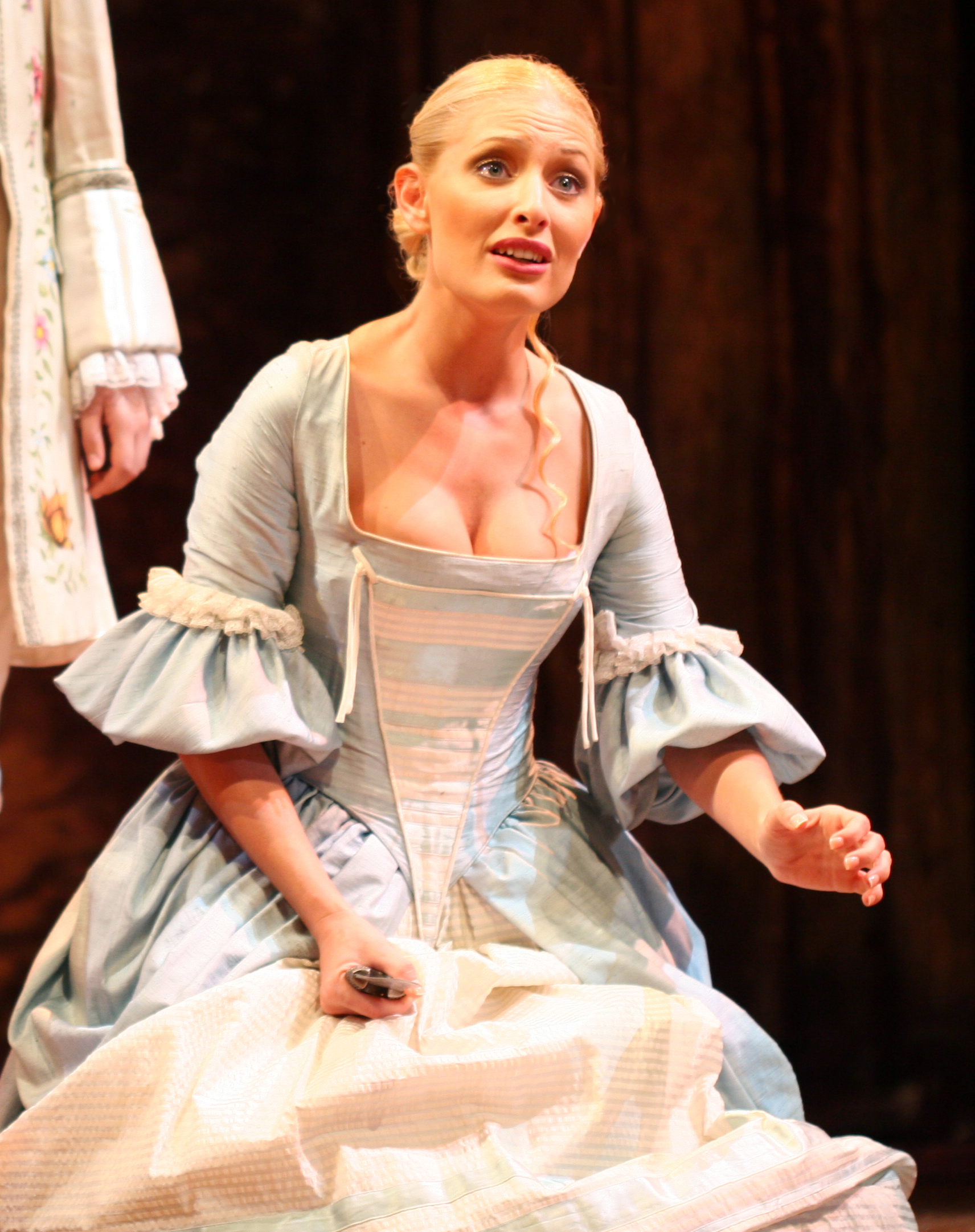 Daniella plays Pamina from "Magic Flute"